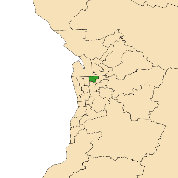 Electoral district 2018 boundaries shown in green